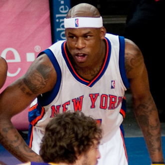 Al Harrington of the New York Knicks This file has been extracted from another file: Kobe Bryant and Al Harrington waiting for a jump ball.jpg